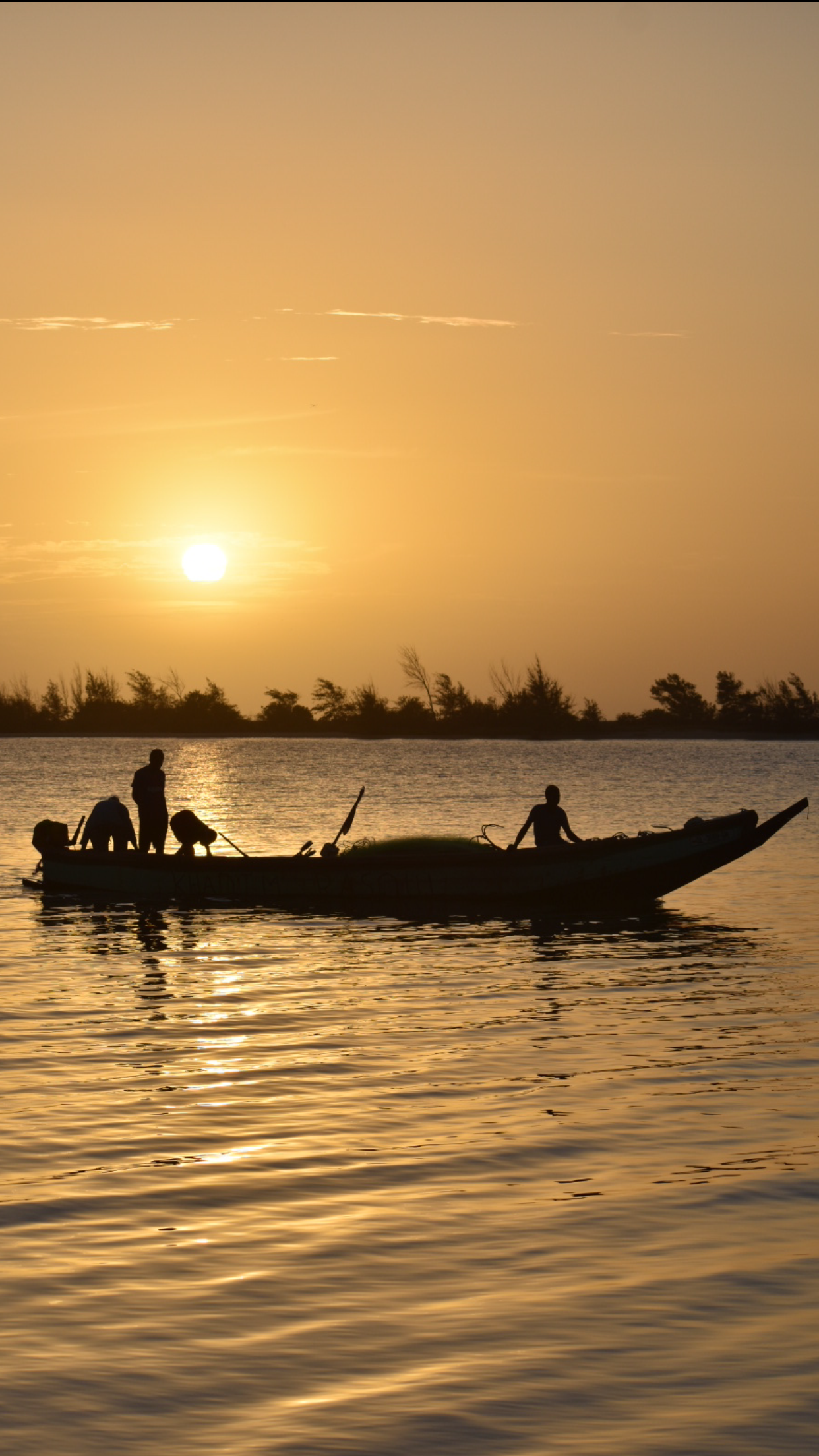 At sunset, fishermen return home at the Langue de Babarie, Senegal This is an image with the theme "Africa on the Move or Transport" from: Senegal